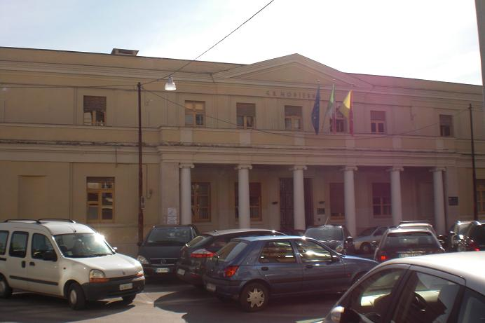 Hospital "G.B. Odierna" in Ragusa, Sicily.